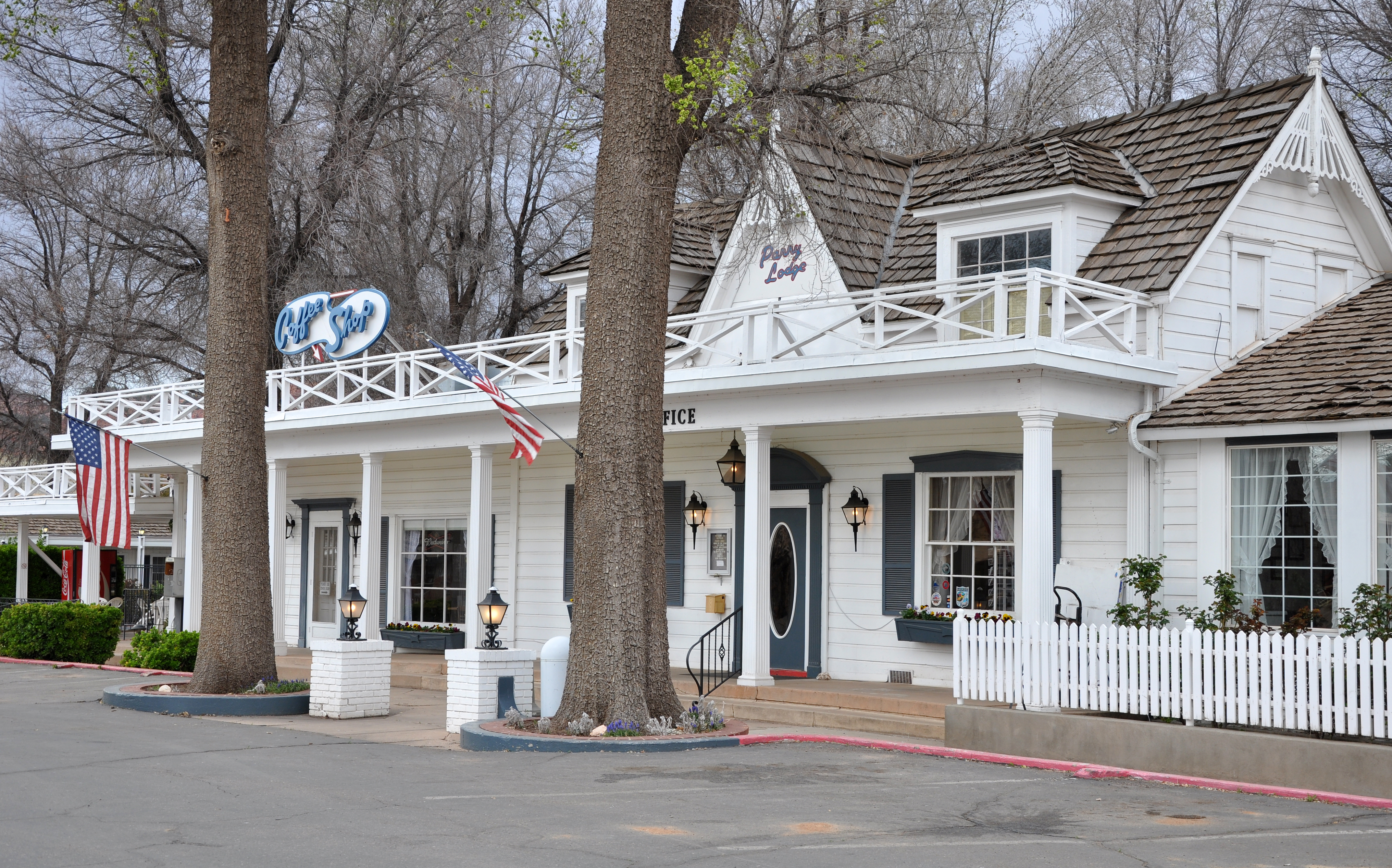 Parry Lodge in Kanab in the U.S. state of Utah.